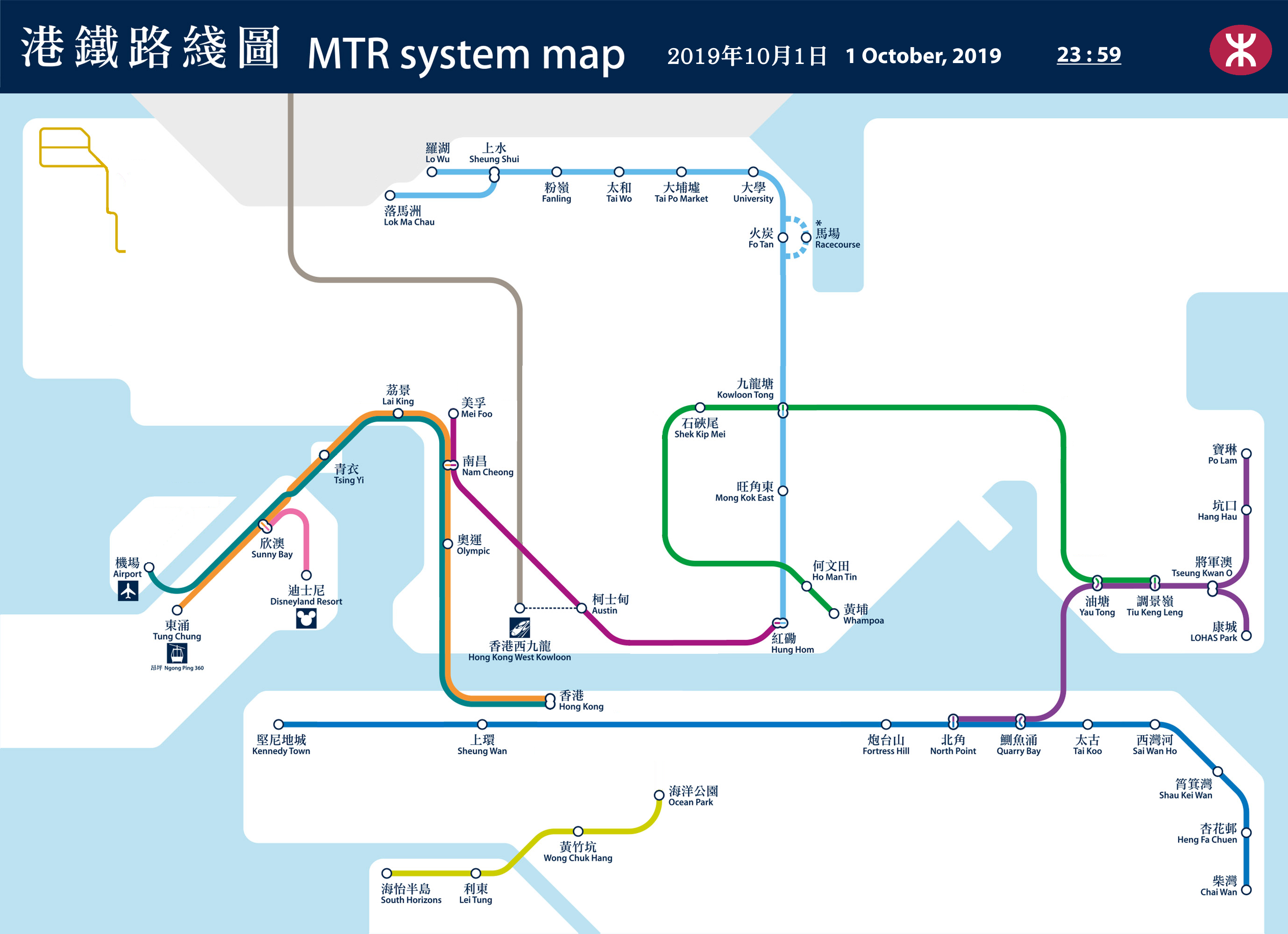 MTR System Map on 1 October 2019, after stations close due to protests.